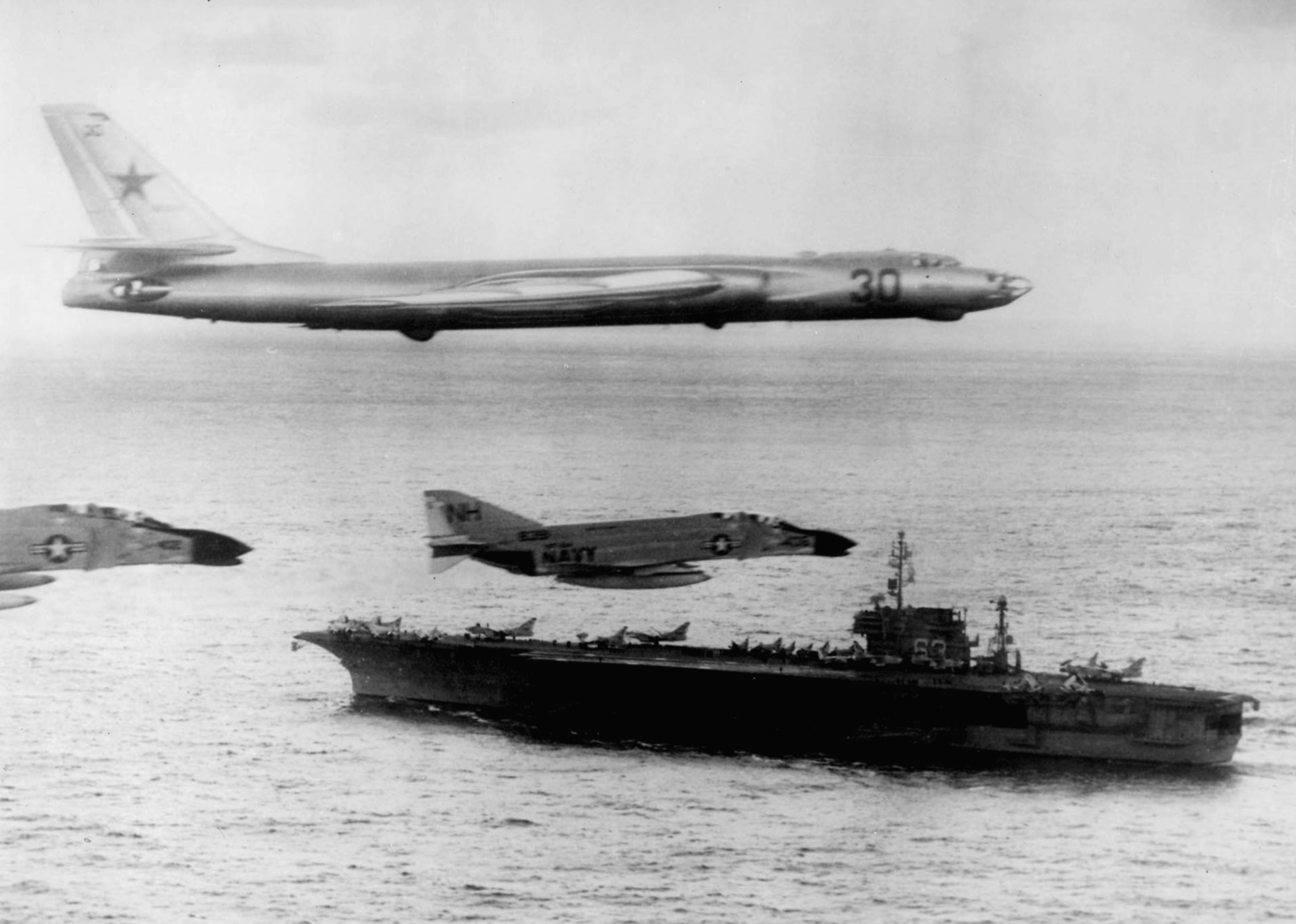 Two U.S. Navy McDonnell F-4B Phantom II from Fighter Squadron VF-114 Aardvarks escort a Soviet Tupolev Tu-16 "Badger" bomber as it passes over the aircraft carrier USS Kitty Hawk (CVA-63) in January 1963. VF-114 was assigned to Carrier Air Group 11 (CVG-11) aboard the Kitty Hawk for a deployment to the Western Pacific from 13 September 1962 to 2 April 1963.